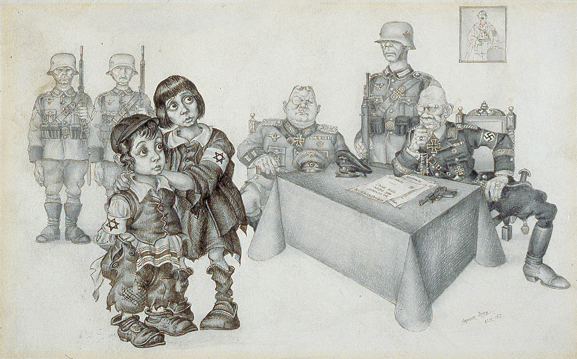 Szyk's efforts to expose the hideous nature of the Nazi "Final Solution," in which even innocent Jewish children who represented no military threat to German rule were condemned to die, is well reflected here. The drawing first appeared in the New York daily newspaper PM in 1943 and later on prints and fundraising stamps for Peter H. Bergson's Emergency Committee to Save the Jewish People of Europe.